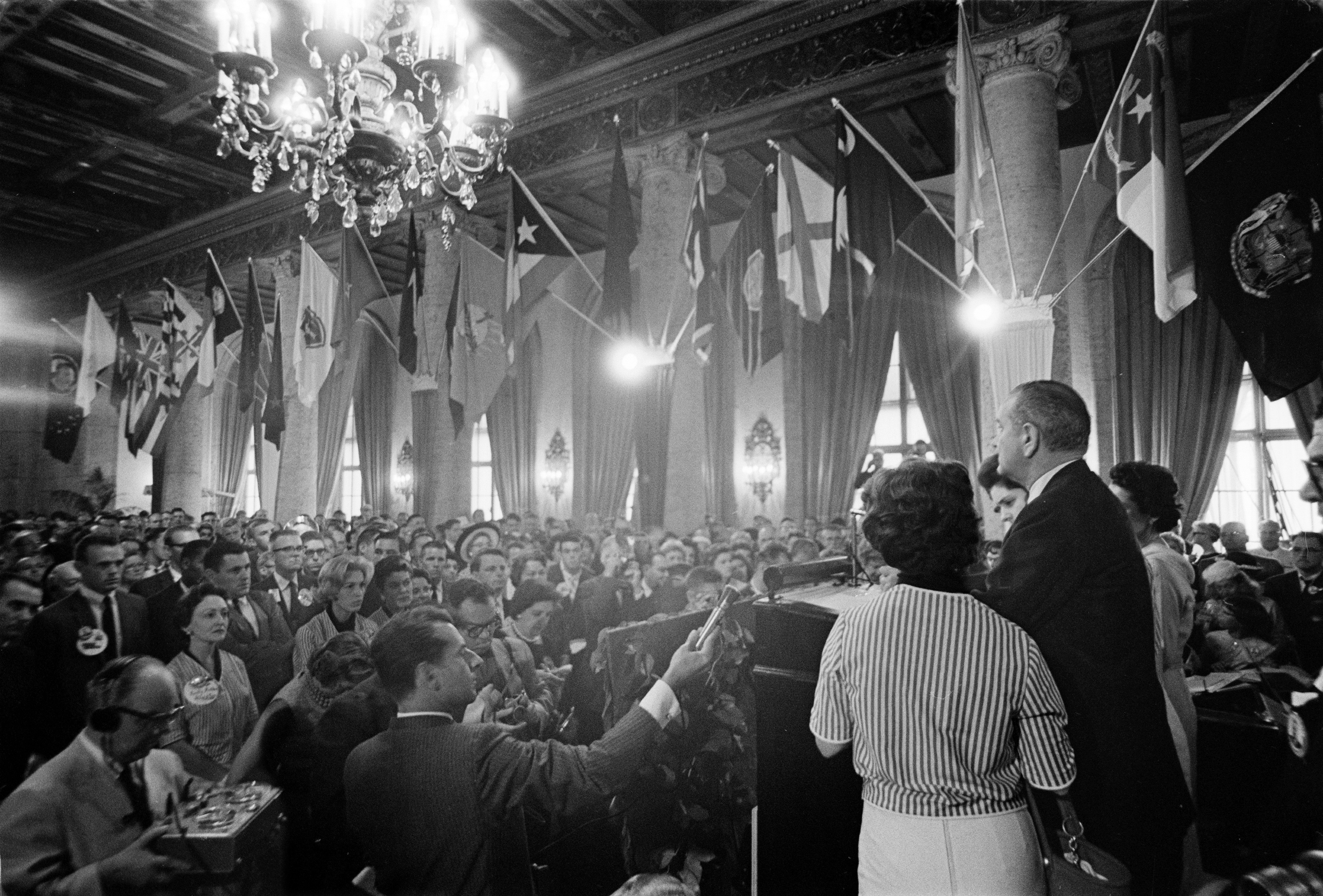 Reception held at Biltmore Hotel by Sen. and Mrs. Lyndon Johnson. Photograph shows Lyndon B. Johnson at podium speaking to a crowd while campaigning for the nomination for president at the Democratic Convention in Los Angeles, California; Mrs. Johnson stands next to him with her back to the camera.